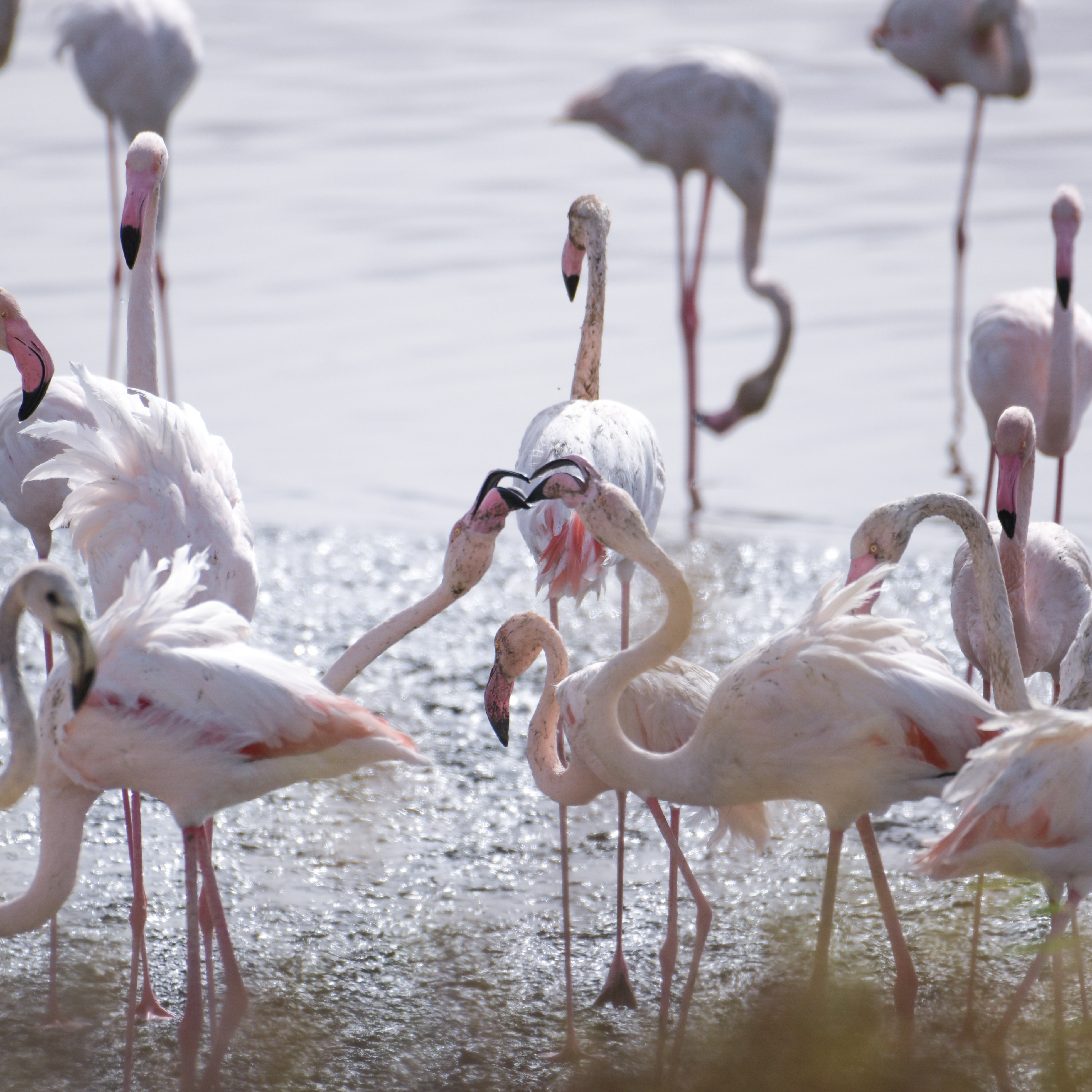 They live in the UAE wetlands. These wetlands spreads across the UAE coastline. These Flamingos nests in Al Wathba wetlands.